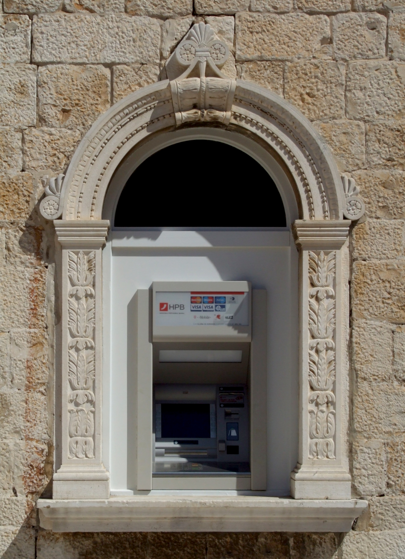 Cash Maschine in Trogir, Croatia